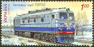 Stamp of Ukraine